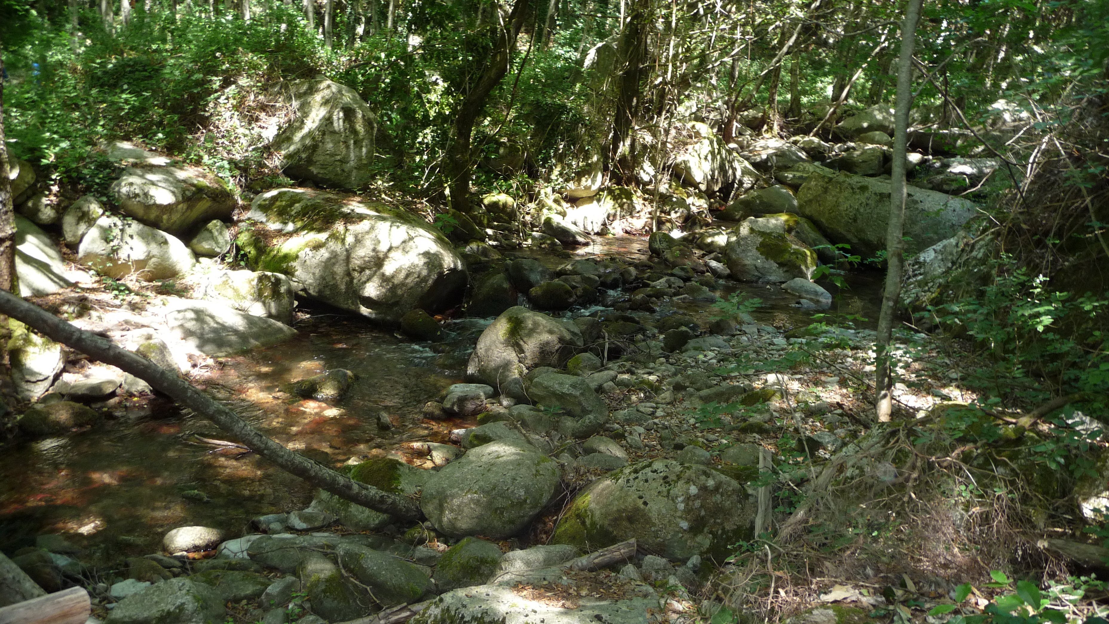 Torrent Folea (Calabria -Italy)